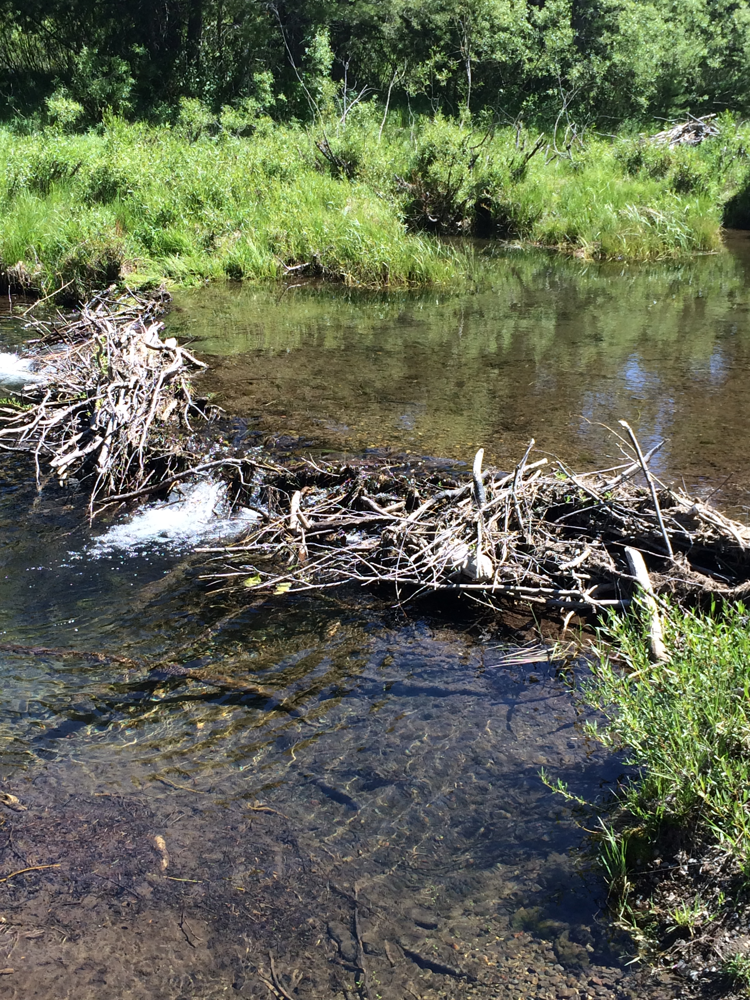 Beaver dam on Blackwood Creek, tributary to Lake Tahoe's western shore - dam broken by apparent human interference.